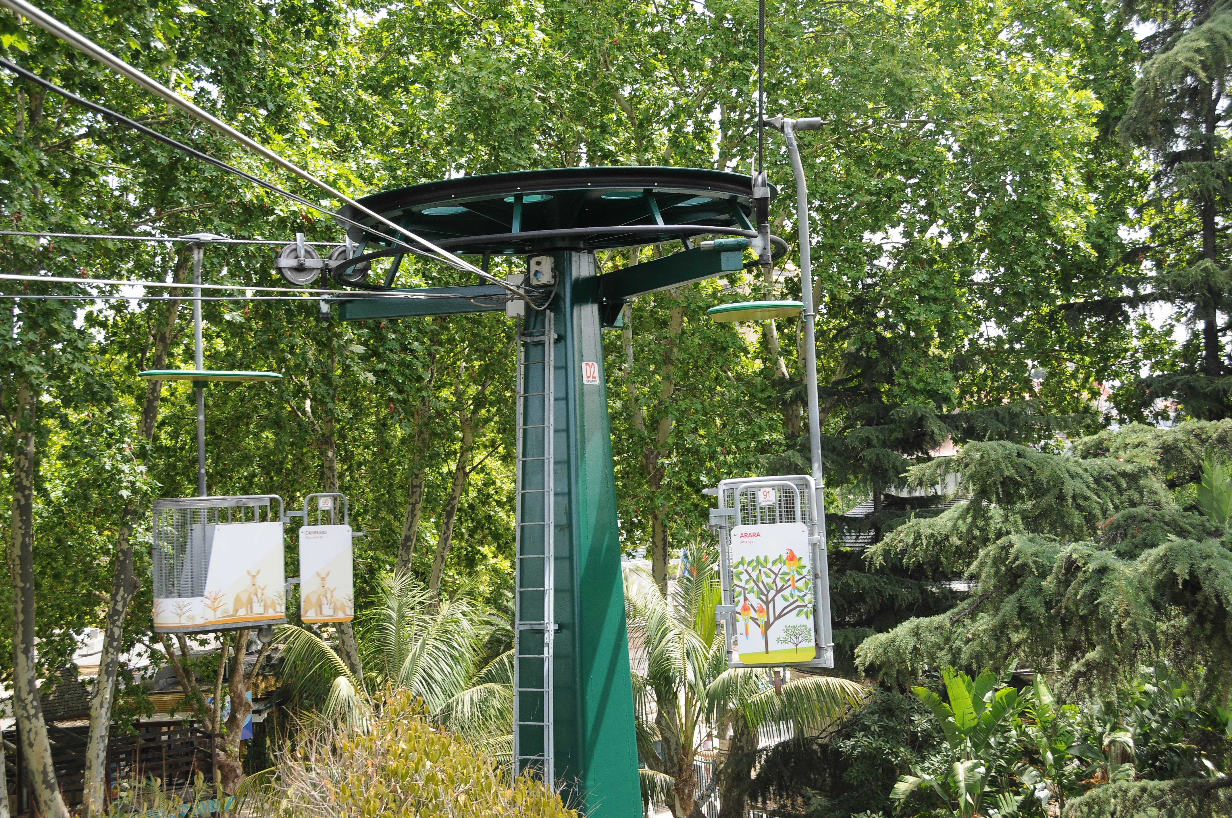 Cableway in Jardim Zoológico de Lisboa